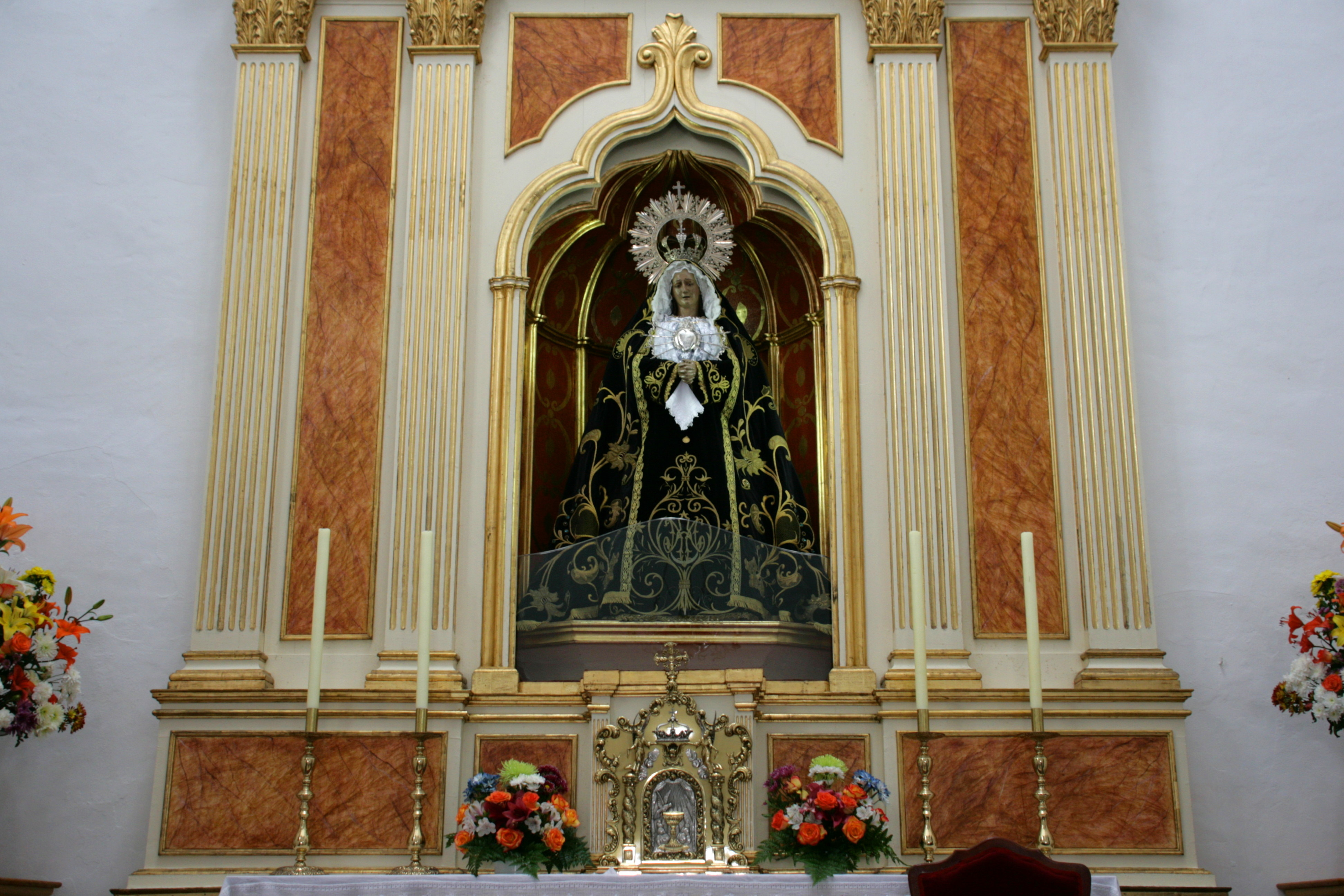 Nuestra Señora de Los Dolores, Calle Virgen de Los Dolores in Mancha Blanca, Tinajo, Lanzarote, Canary Islands